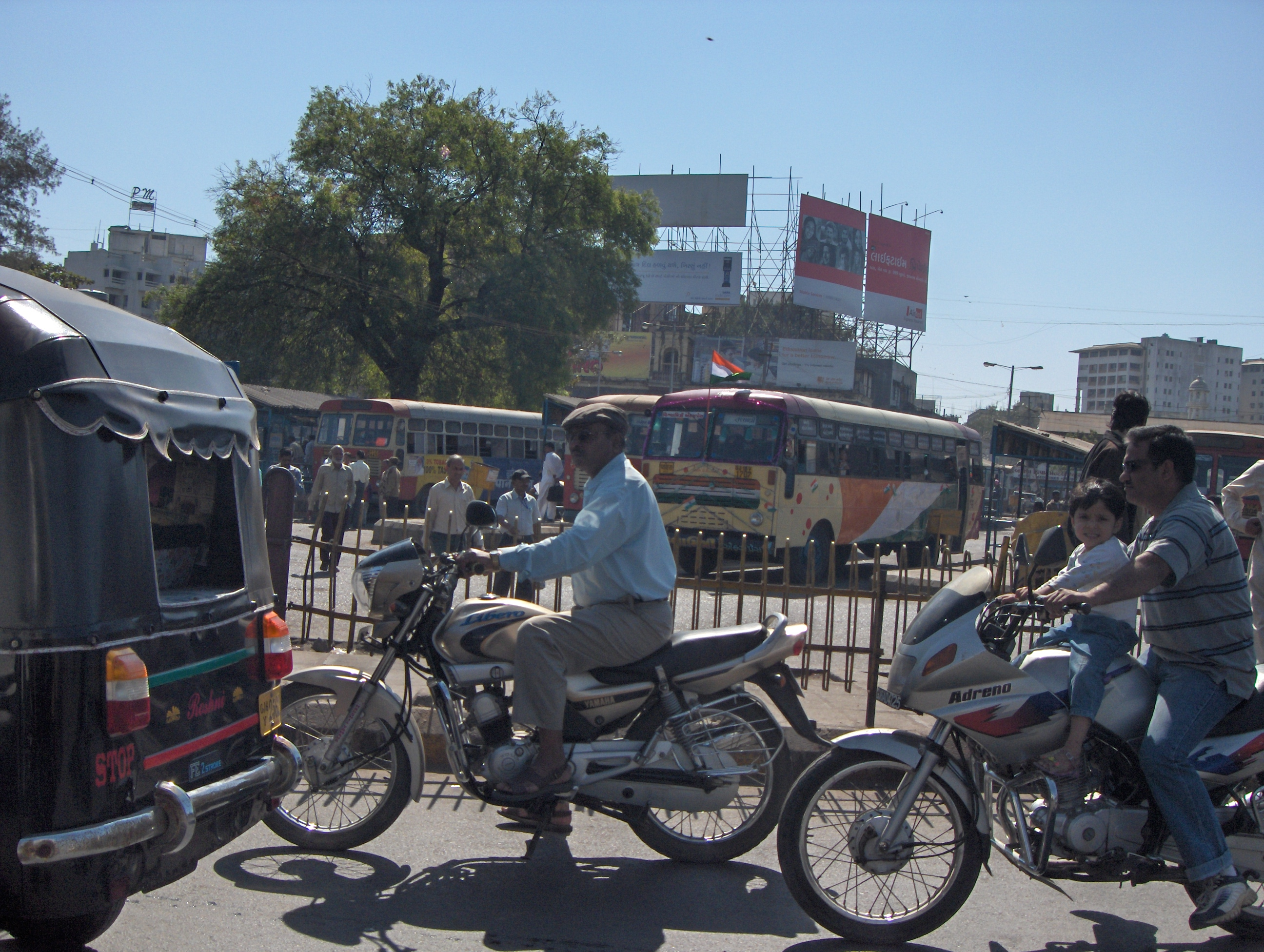 Vadodara in Gujarat, India Pic taken by me, Nichalp on 26-Jan-2006